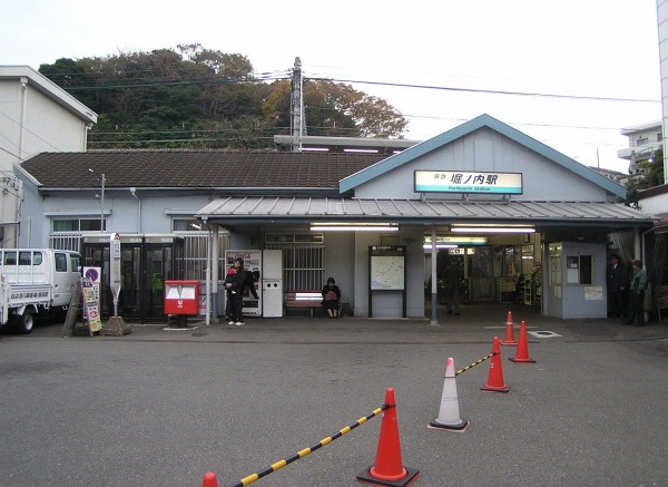 Keikyu Horinouchi station entrance